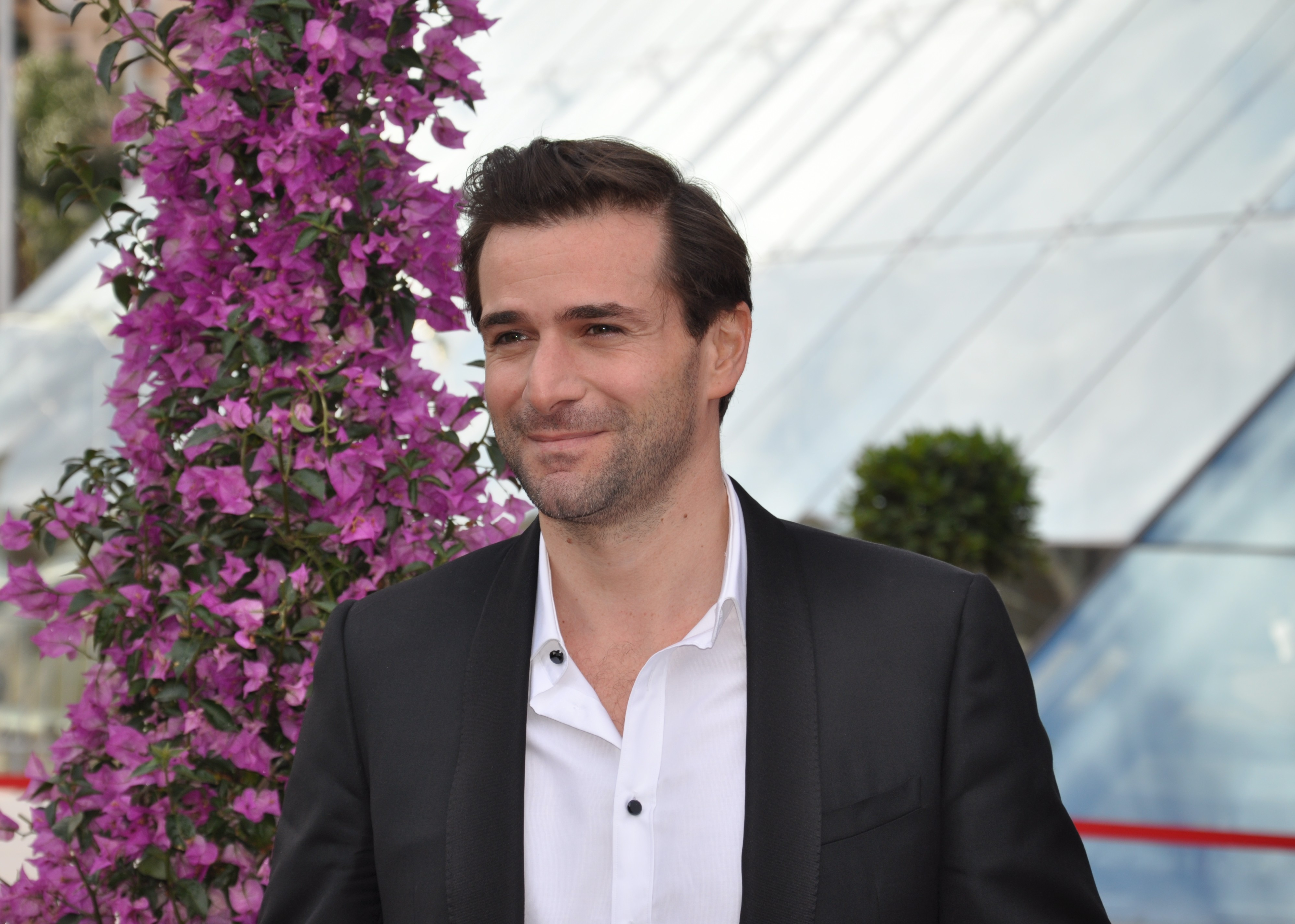 Grégory Fitoussi at the 2013 Monte-Carlo Television Festival.